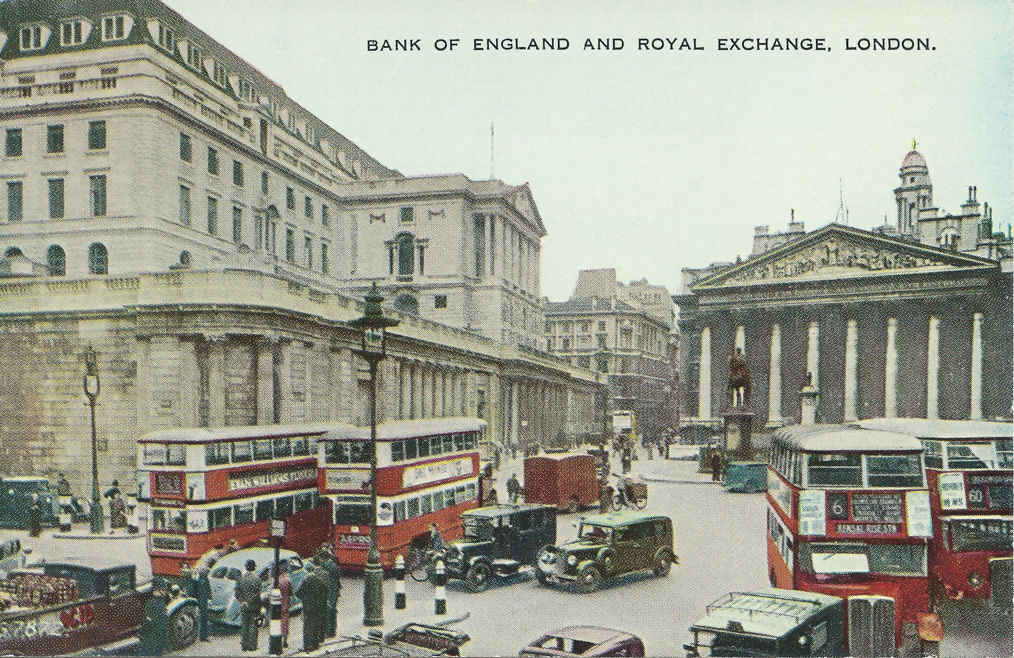 Bank of England and foreign exchange just before World War II.